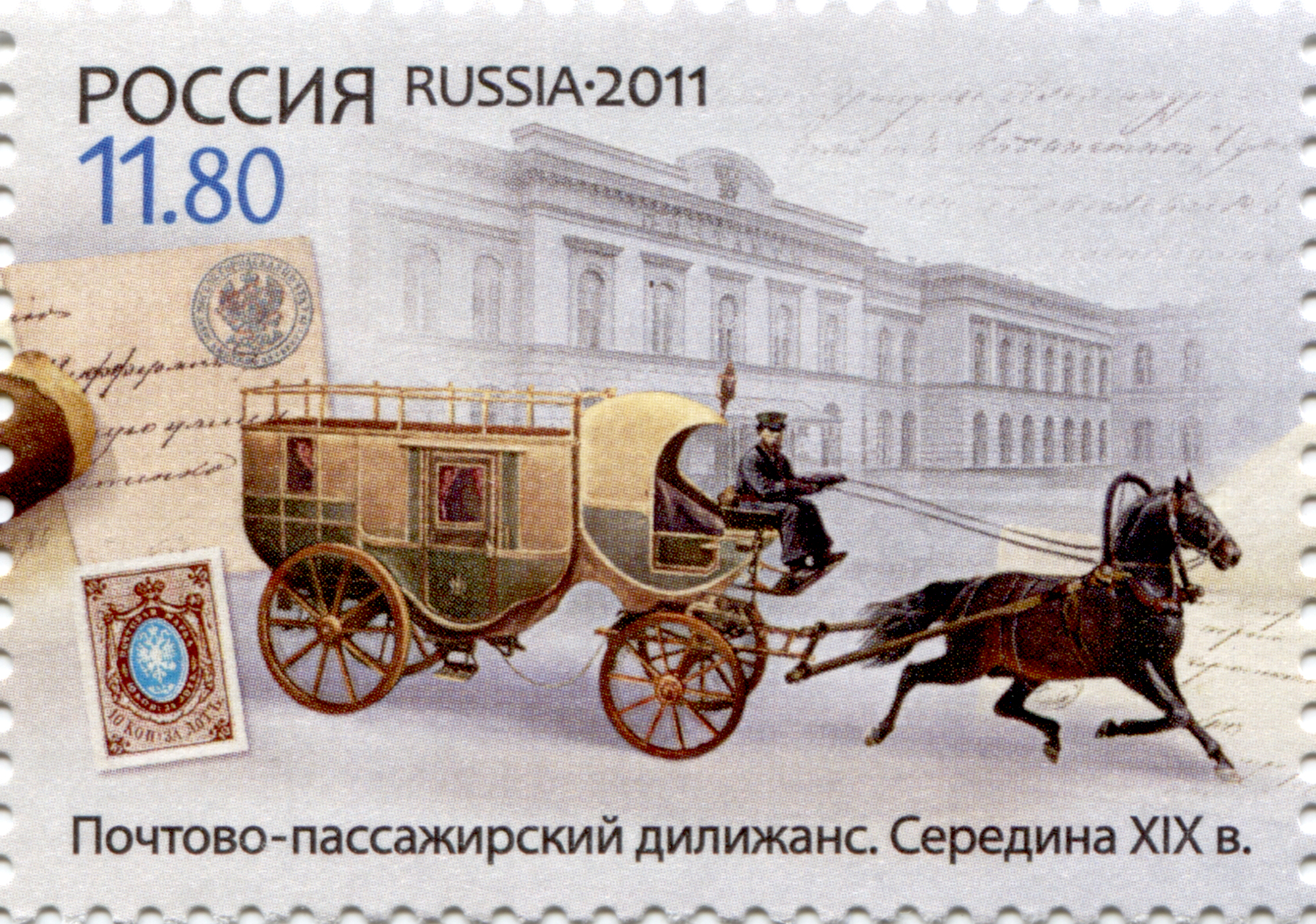 Postage-passenger stagecoach. The middle of XIX. Moscow Postamt 300 jubilee (se-tenant). The stamp of Russia, 2011, PTC Marka Catalogue 1537.